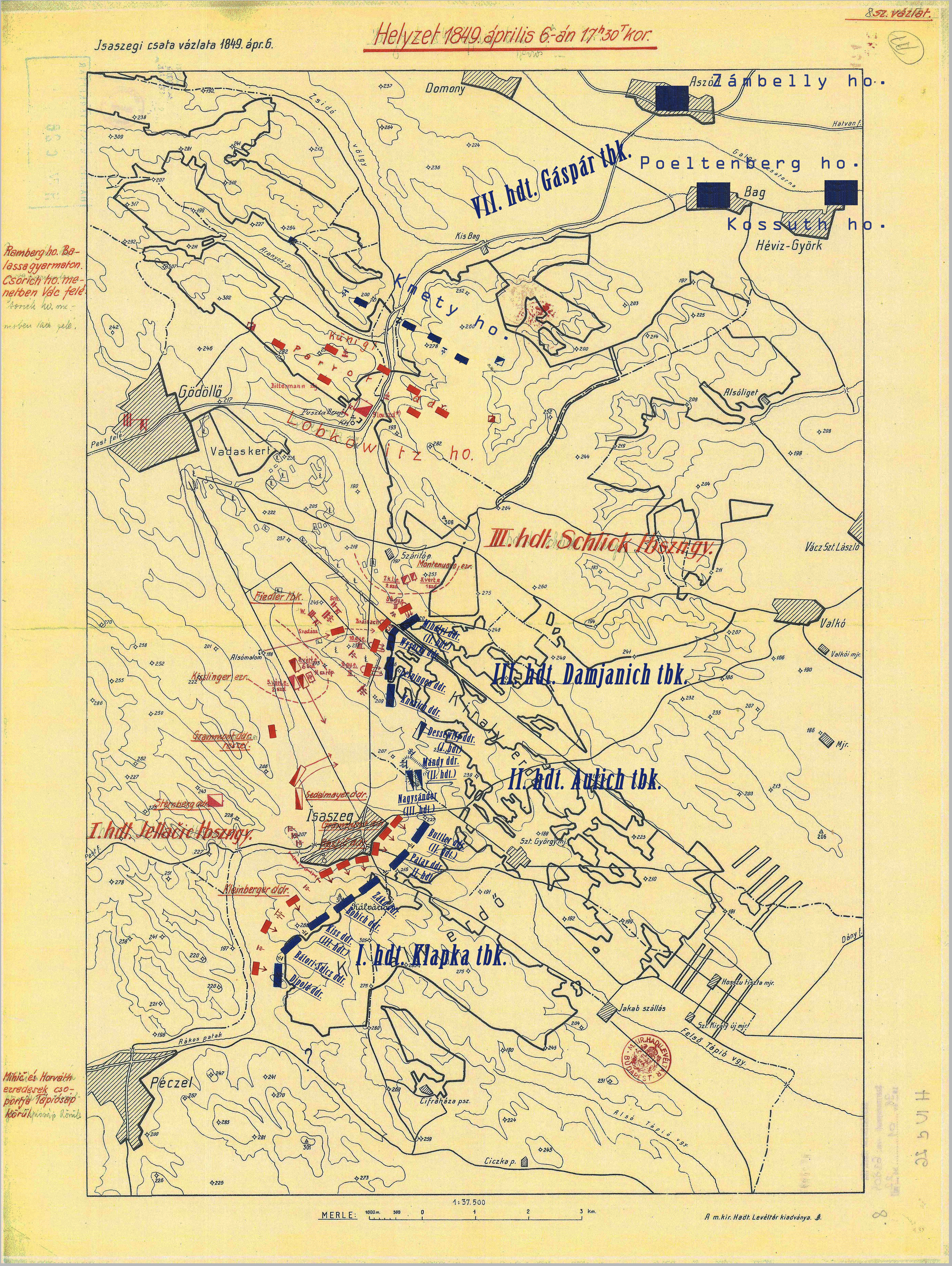 The situation at 17,30 o'clock. Red - the Austrian troops, Blue - the Hungarian troops.